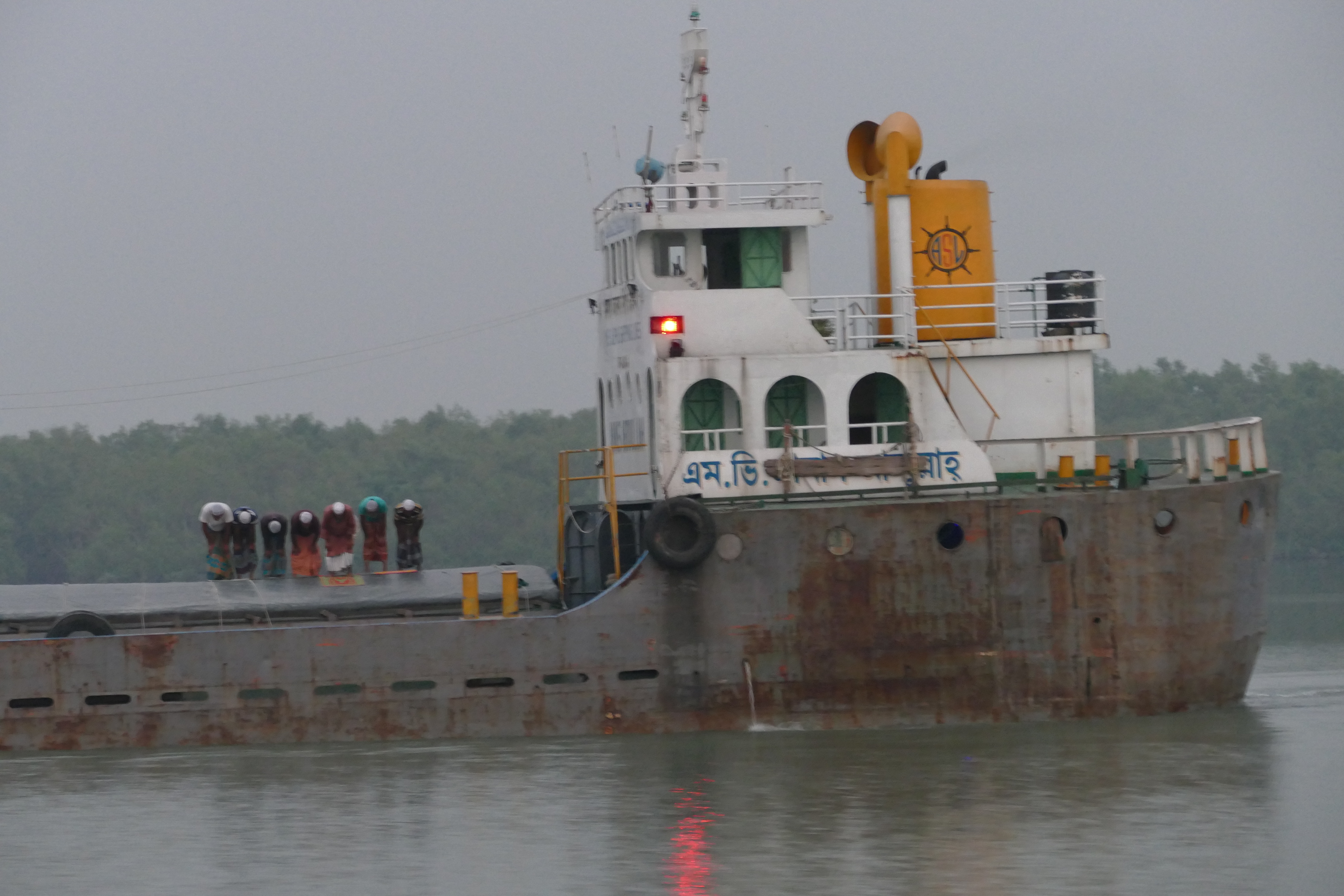 Passing cargo ships in Sunderbans Safari